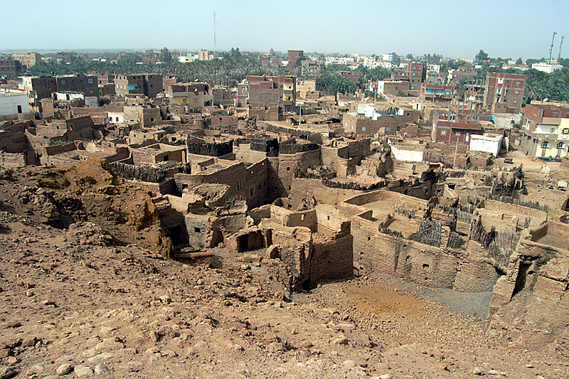 Old village of Mut, el-Dakhla depression, Libyan Desert, Egypt